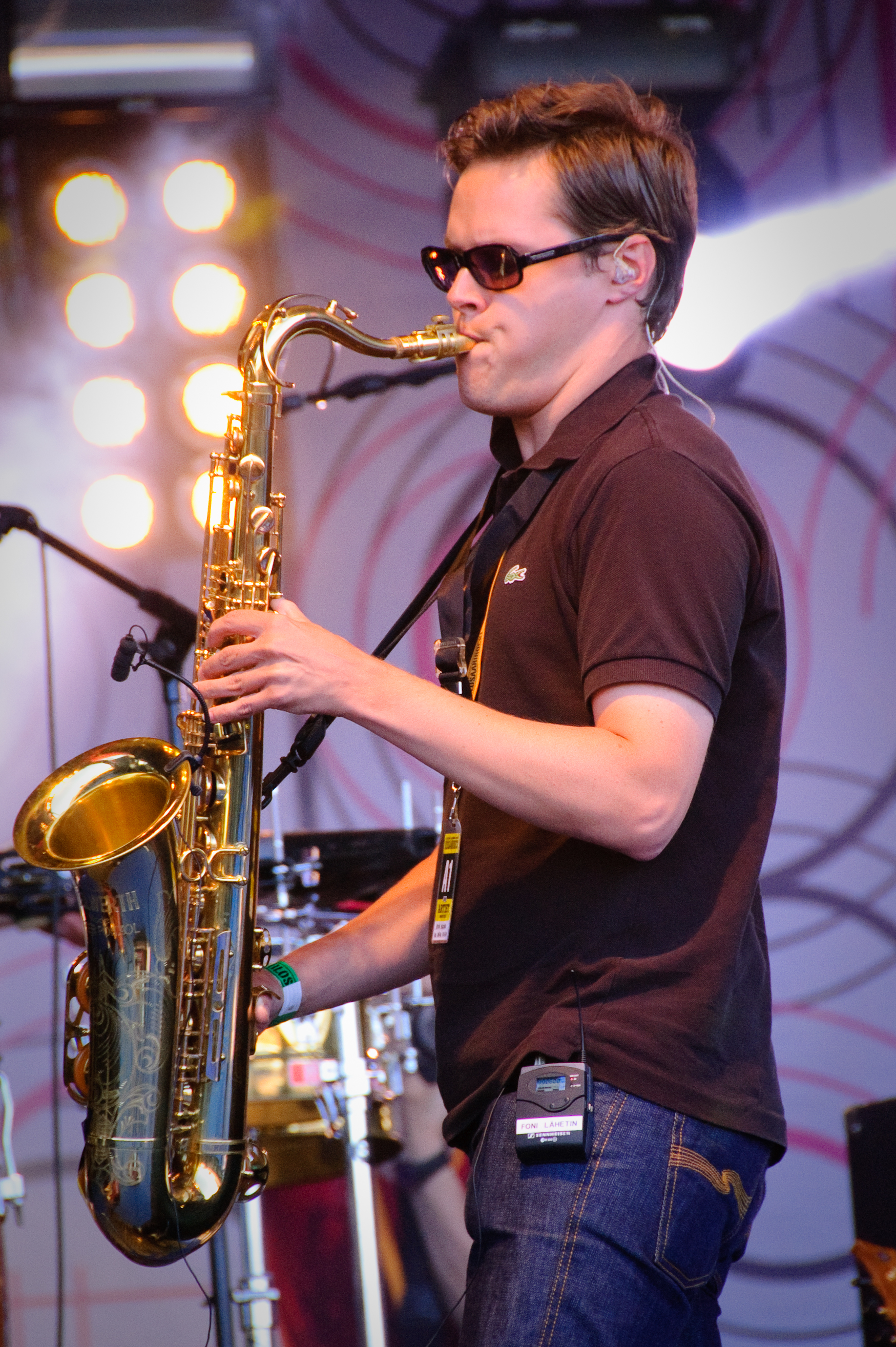 Saxophonist Pekka Mikkonen of Don Johnson Big Band performing at the 2009 Ilosaarirock festival in Joensuu, Finland.